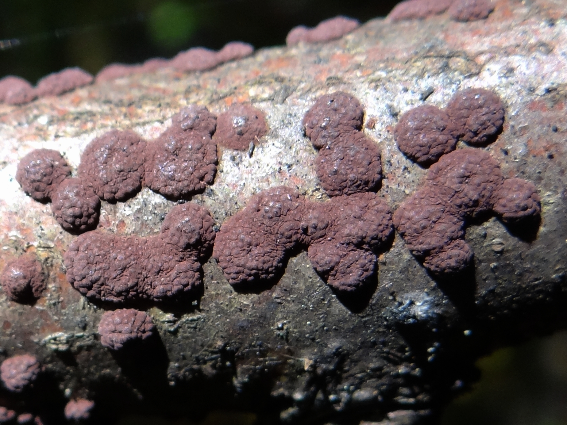 Hypoxylon fragiforme (location: Poland)